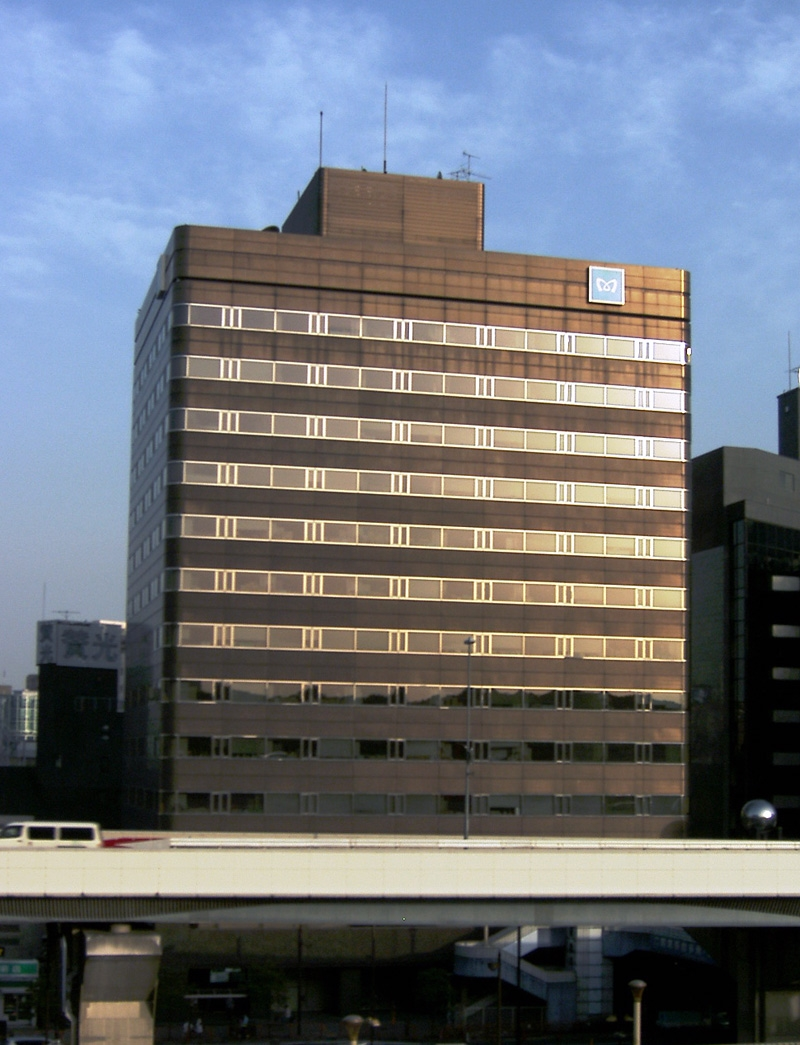 Tokyo_Metro_Office_Building Tokyo Japan